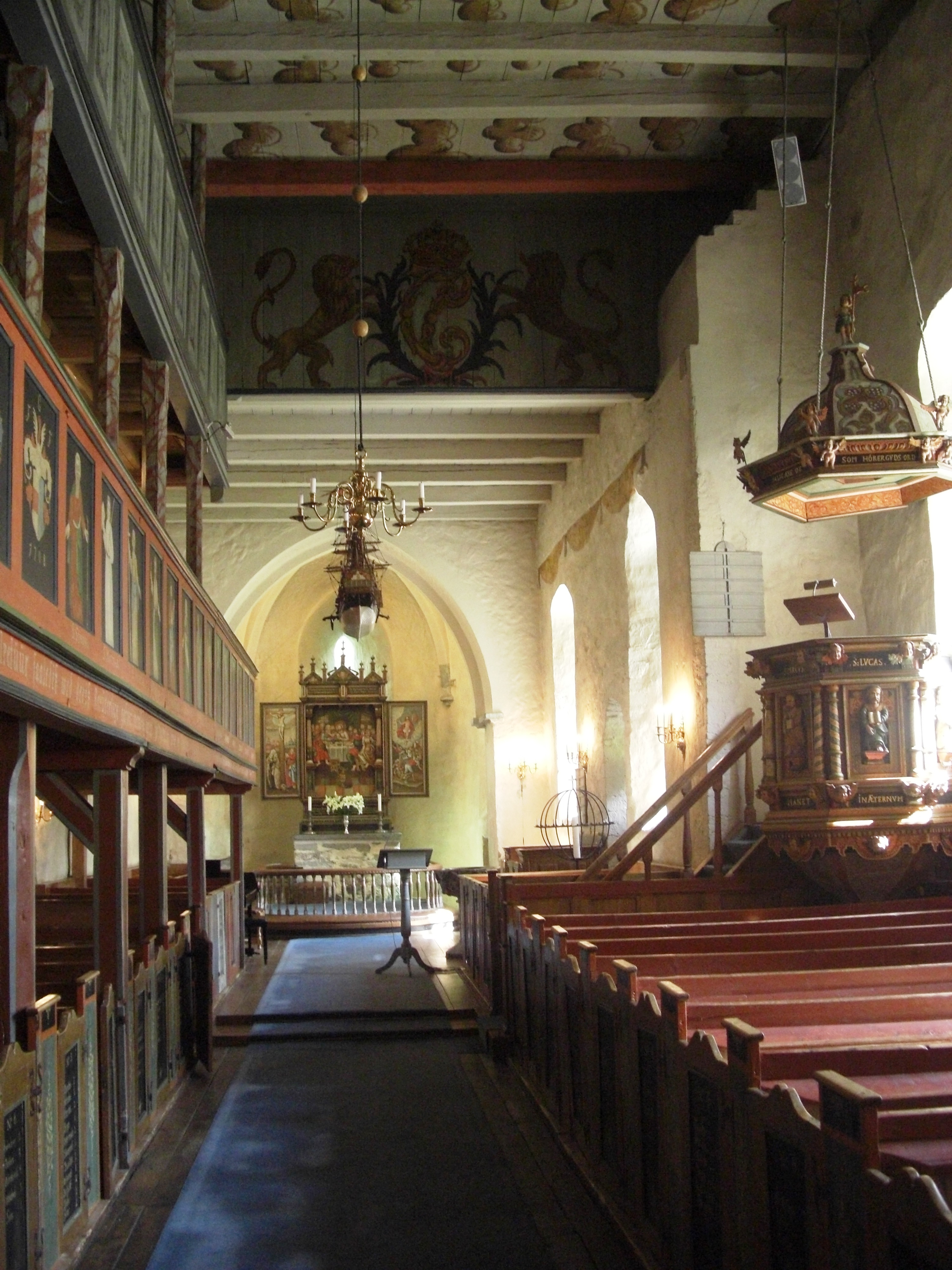 Fjære kirke, interior